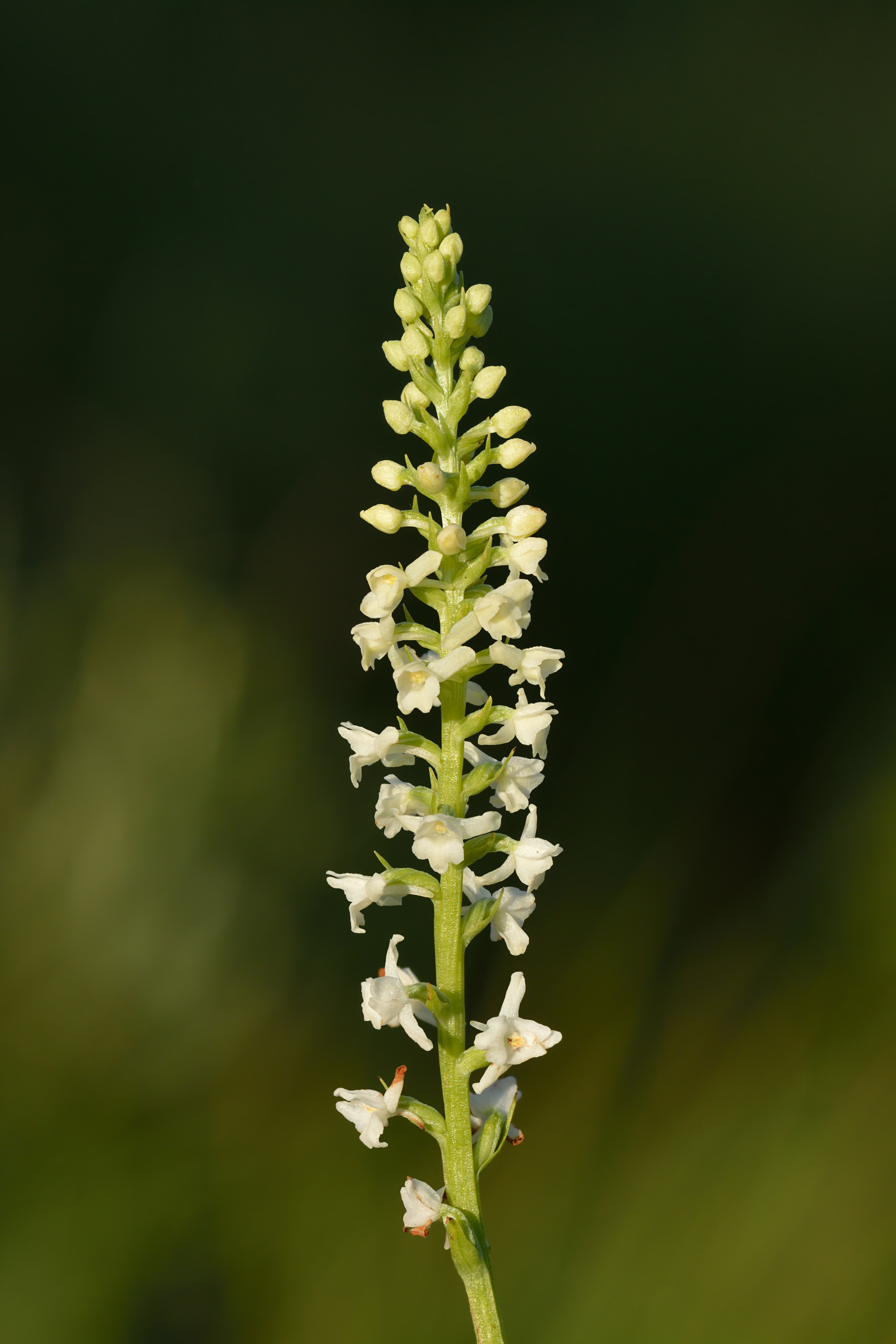 White-flowered short spurred fragrant orchid (flower size ca 6 mm)